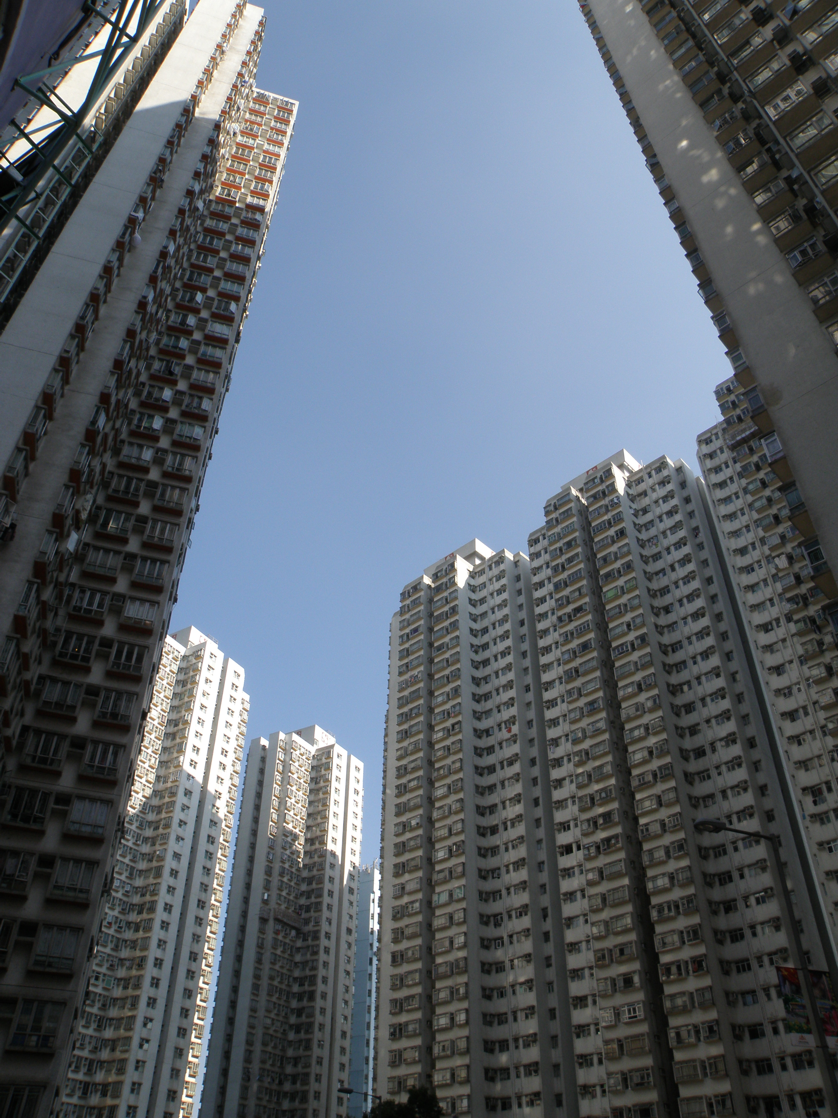 Tsuen King Garden in Tsuen Wan, Hong Kong.